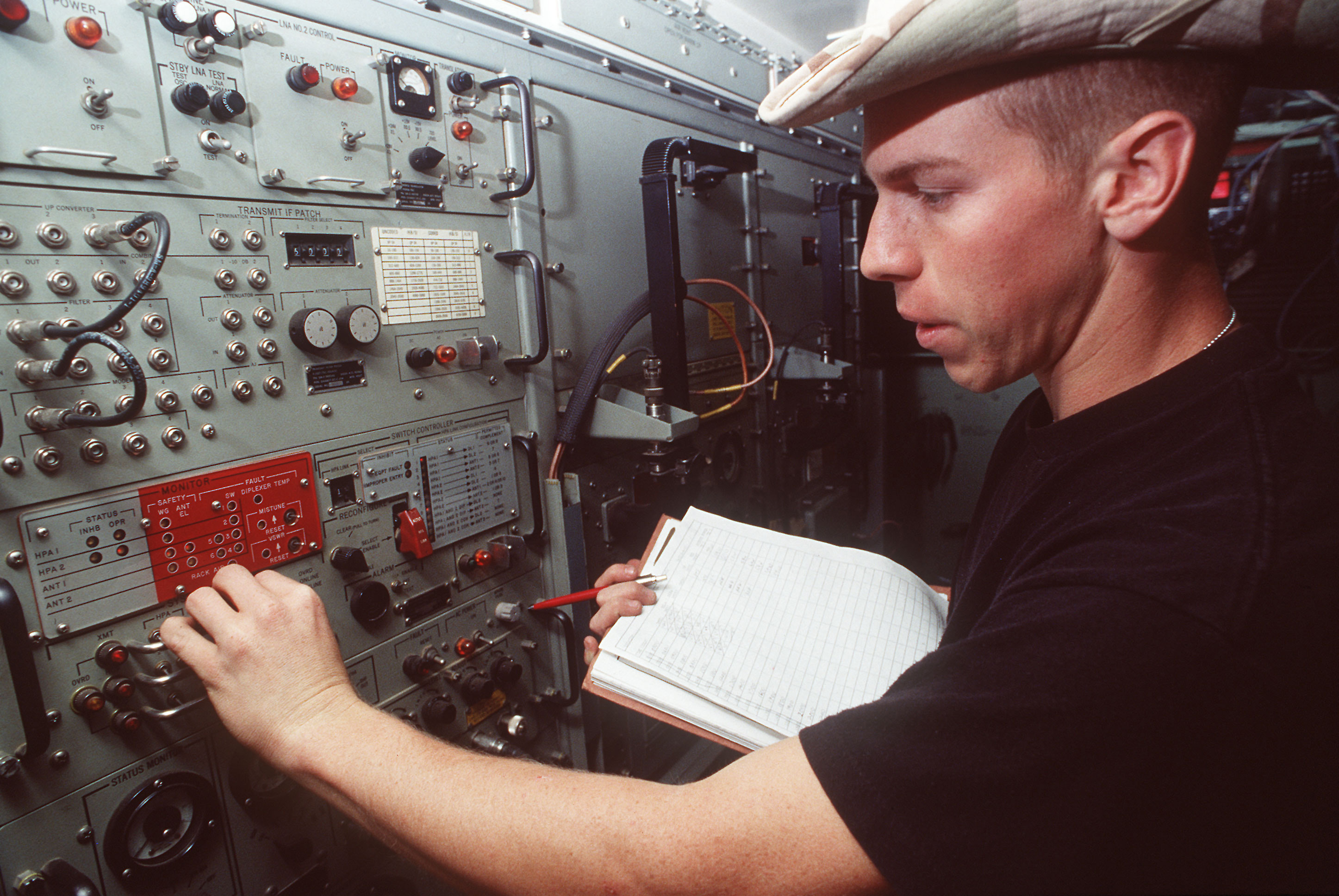 Airman 1st Class Kevin Finley, satellite communications specialist, 5th Combat Communications Group, Robins AFB, GA, checks the power level of a high power amp.